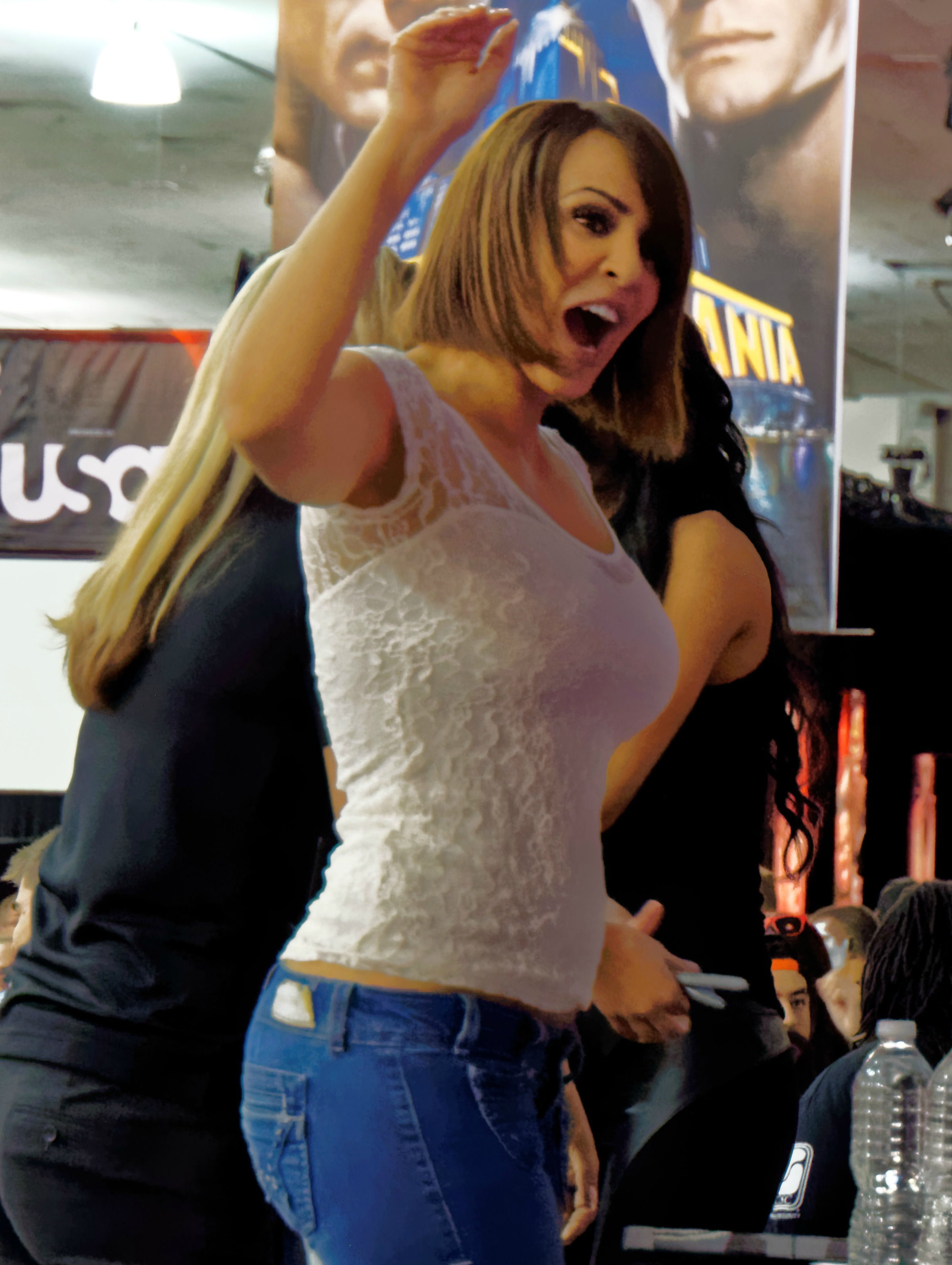 Layla At WrestleMania Axxess in 2015